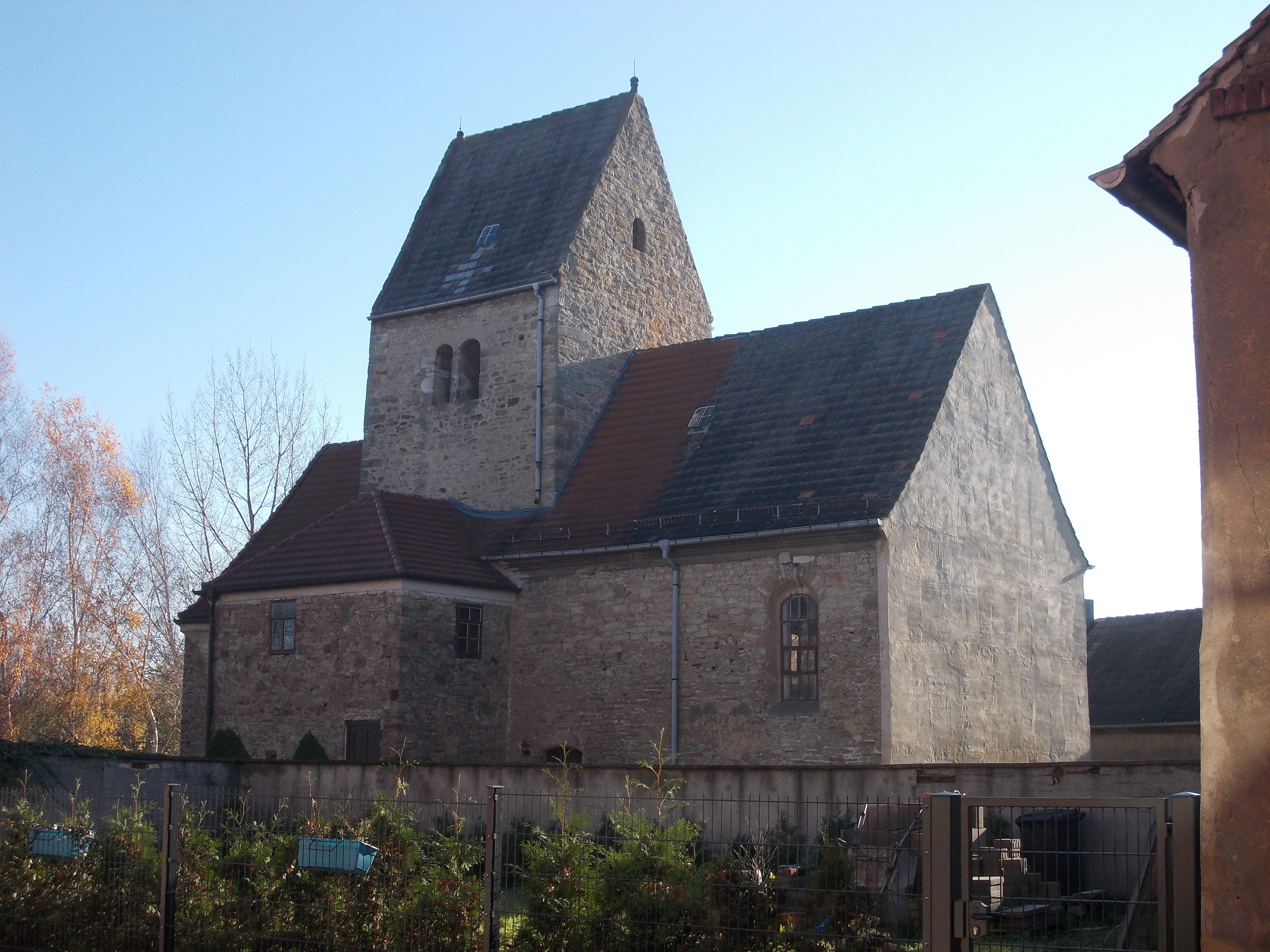 St. Thomas' Church in Blösien (Merseburg, district: Saalekreis, Saxony-Anhalt)